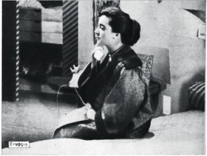 Romanian actress Lica Gheorghiu in „Erupția” (1957)